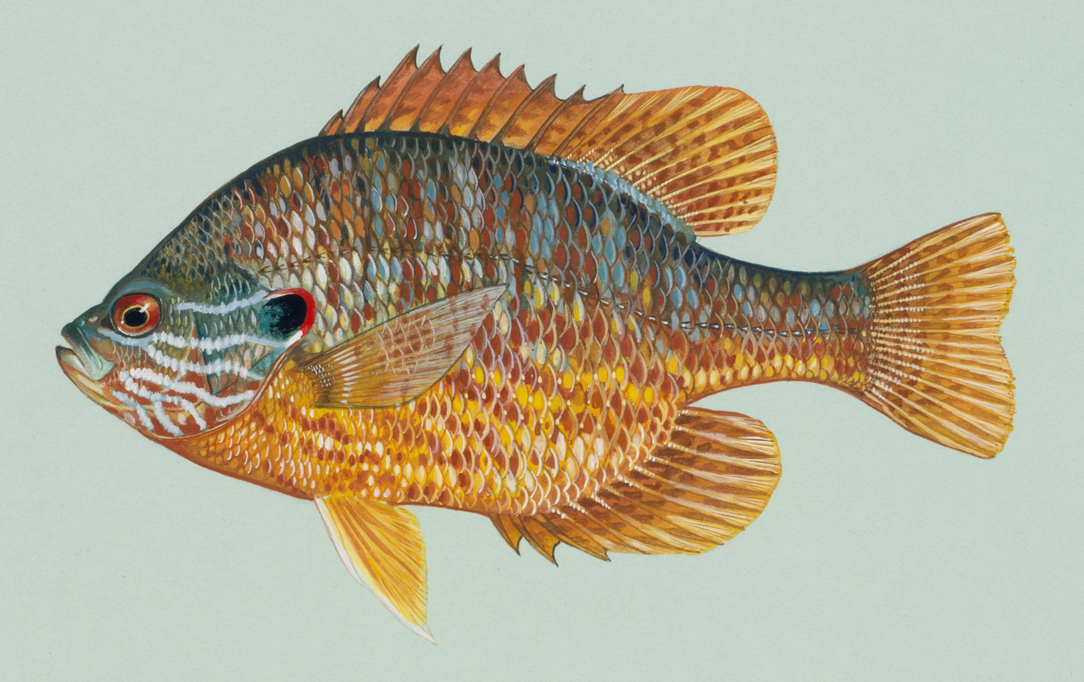 Pumpkinseed (Lepomis gibbosus)